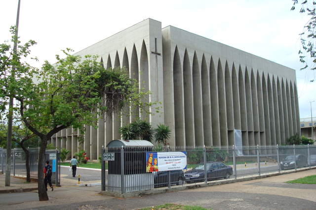 Santuario Dom Bosco (Outside)